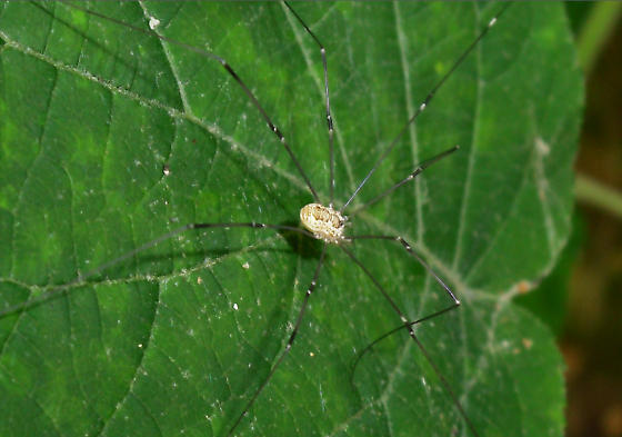 Leiobunum aldrichi found in Prentice Cooper State Park, Chattanooga, TN, USA on May 23, 2014